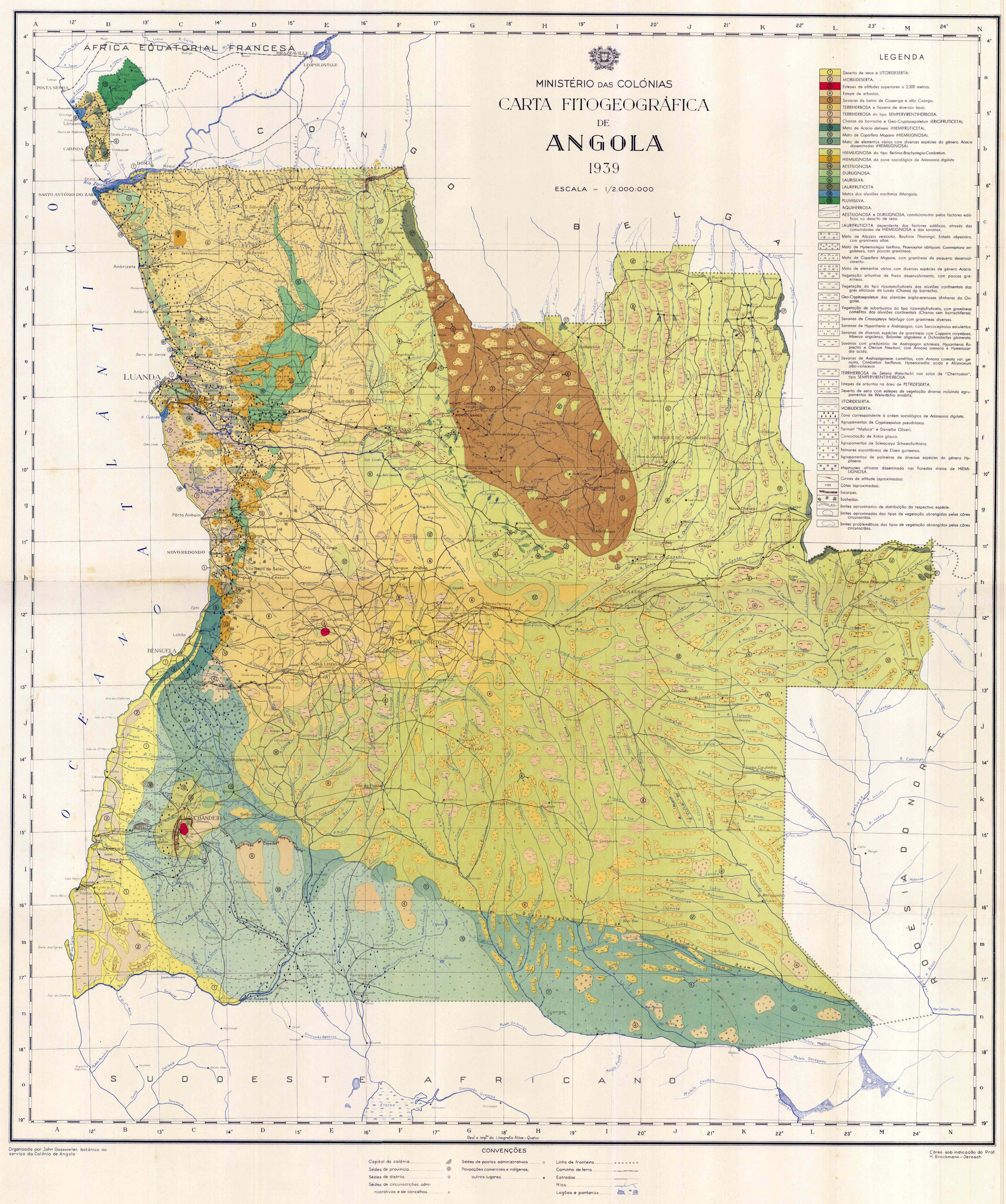 Phytogeographic map of Angola by John Gossweiler (1873-1952), botanist in Angola - see inscription in bottom left corner - Map in public domain in Angola and not protected by copyright in US